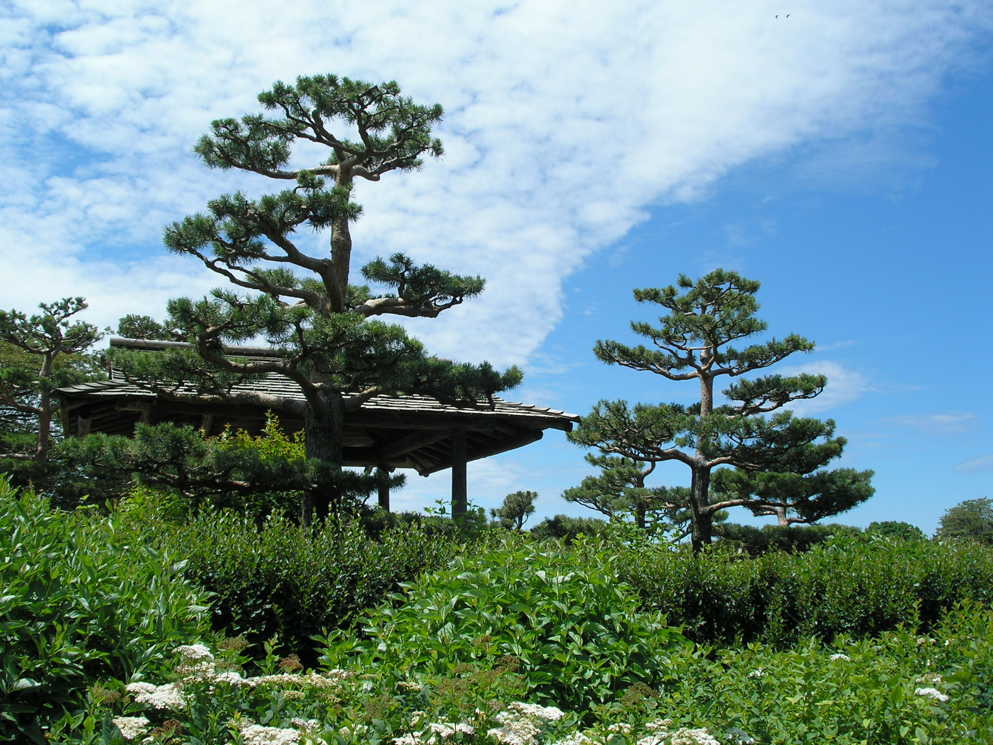 Inside the Chicago Botanic Garden; view of the Japanese Garden